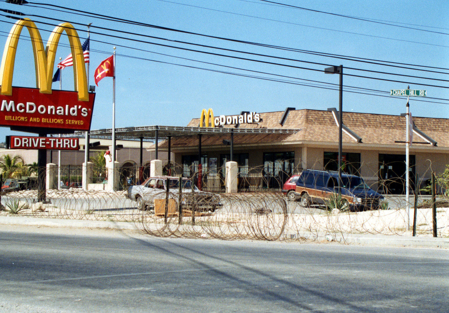 Guantanamo Bay Naval Base has a McDonald's franchise during the Cuban / Haitian refugee crisis in 1994